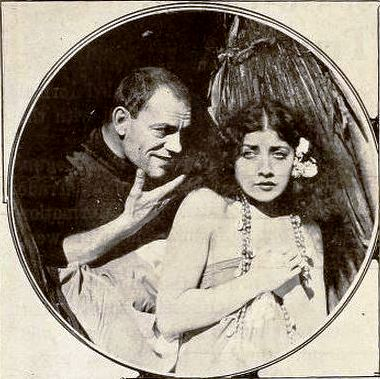 Still from the American film All the Brothers Were Valiant (1923) with Shannon Day and Lon Chaney, on page 172 of the December 23, 1922 Exhibitor's Trade Review.